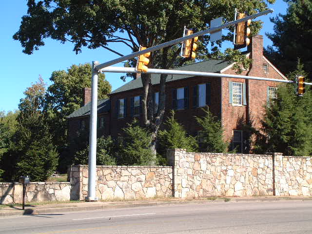 Statesview, Knox County, Tennessee